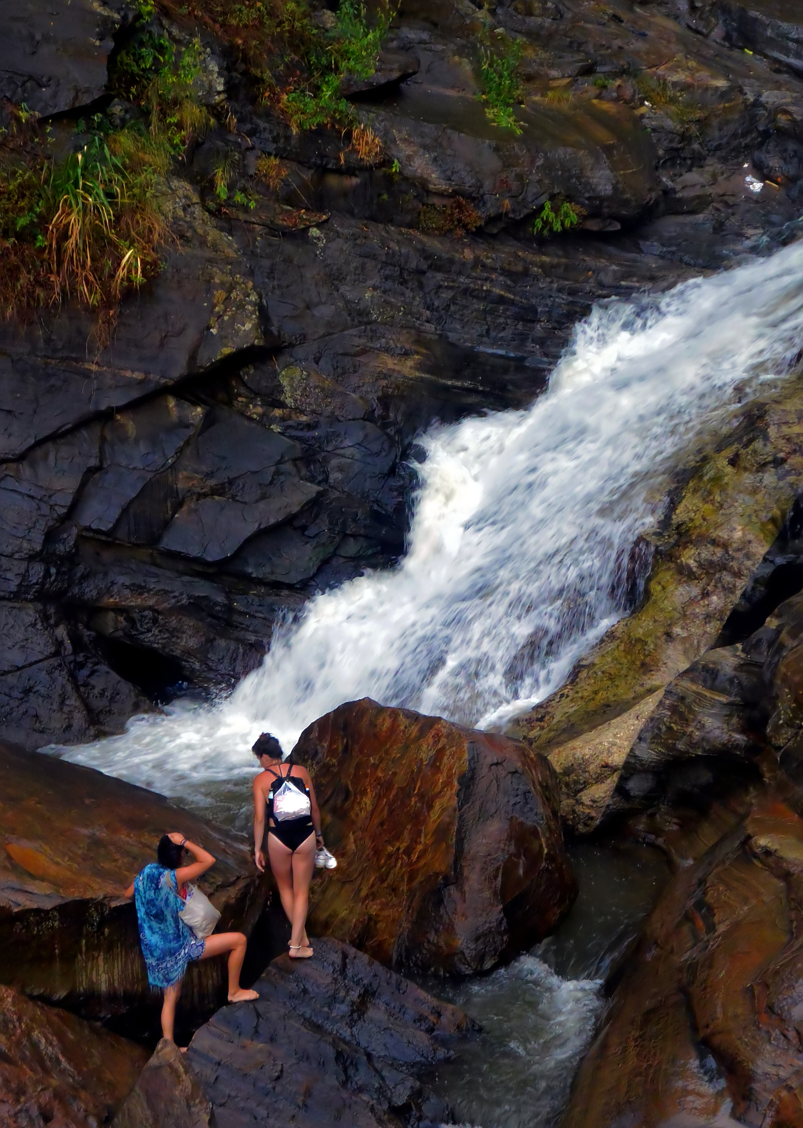 Tourists in Ravana Falls. This was